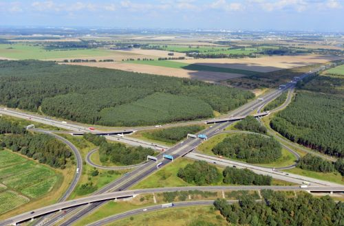 The Schönefeld junction, also called interchange or cross-Schönefeld Schönefeld is a junction on the southern Berliner Ring (A10 / A13 / E55 / E36) in Brandenburg.